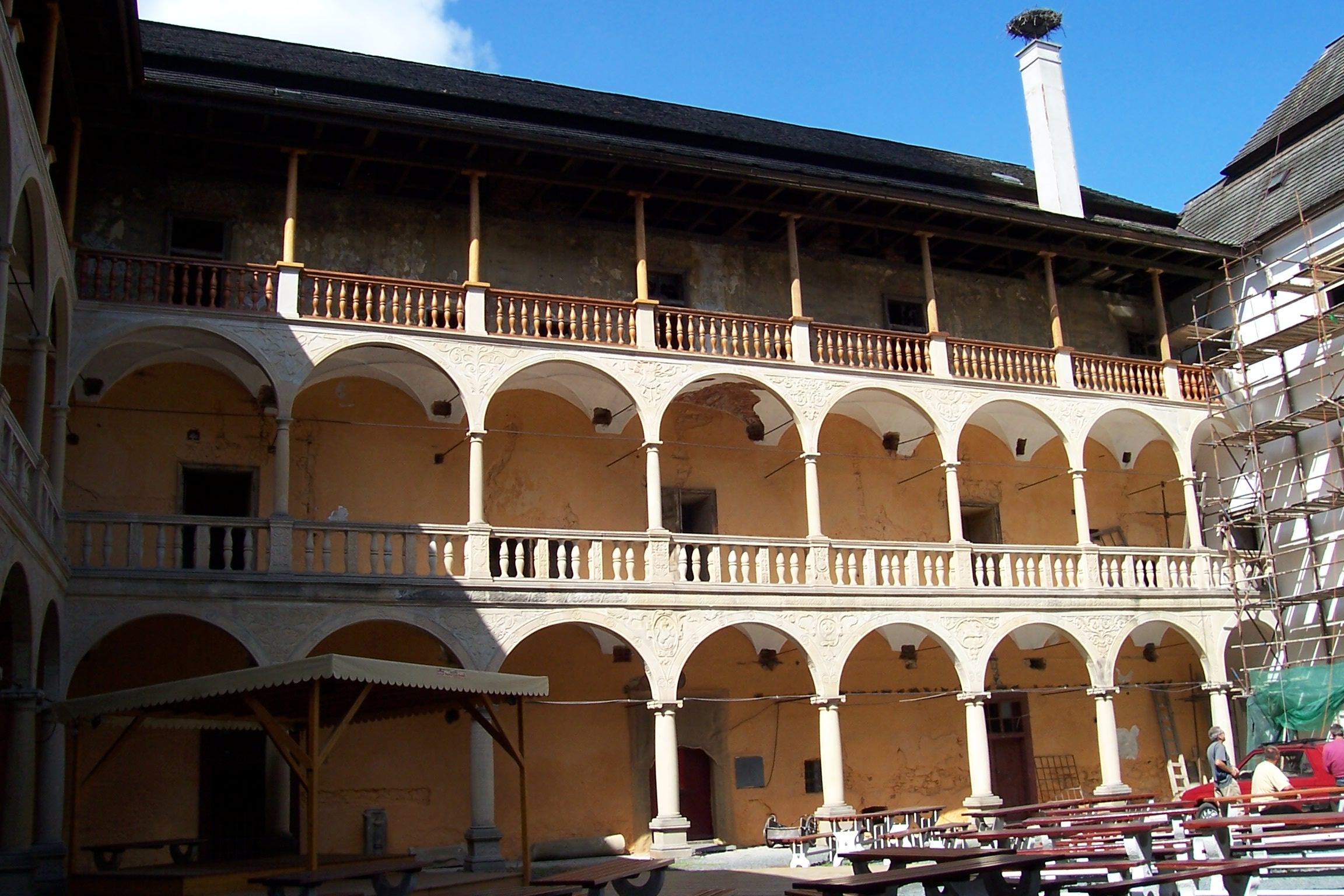 Hustopeče nad Bečvou in Přerov District, Czech Republic. Courtyard of the castle.